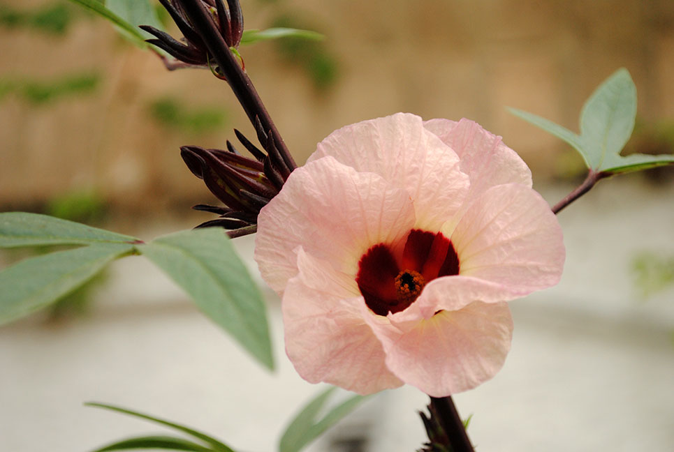 Detail of a roselle flower (Hibiscus sabdariffa), used as an ornate plant.